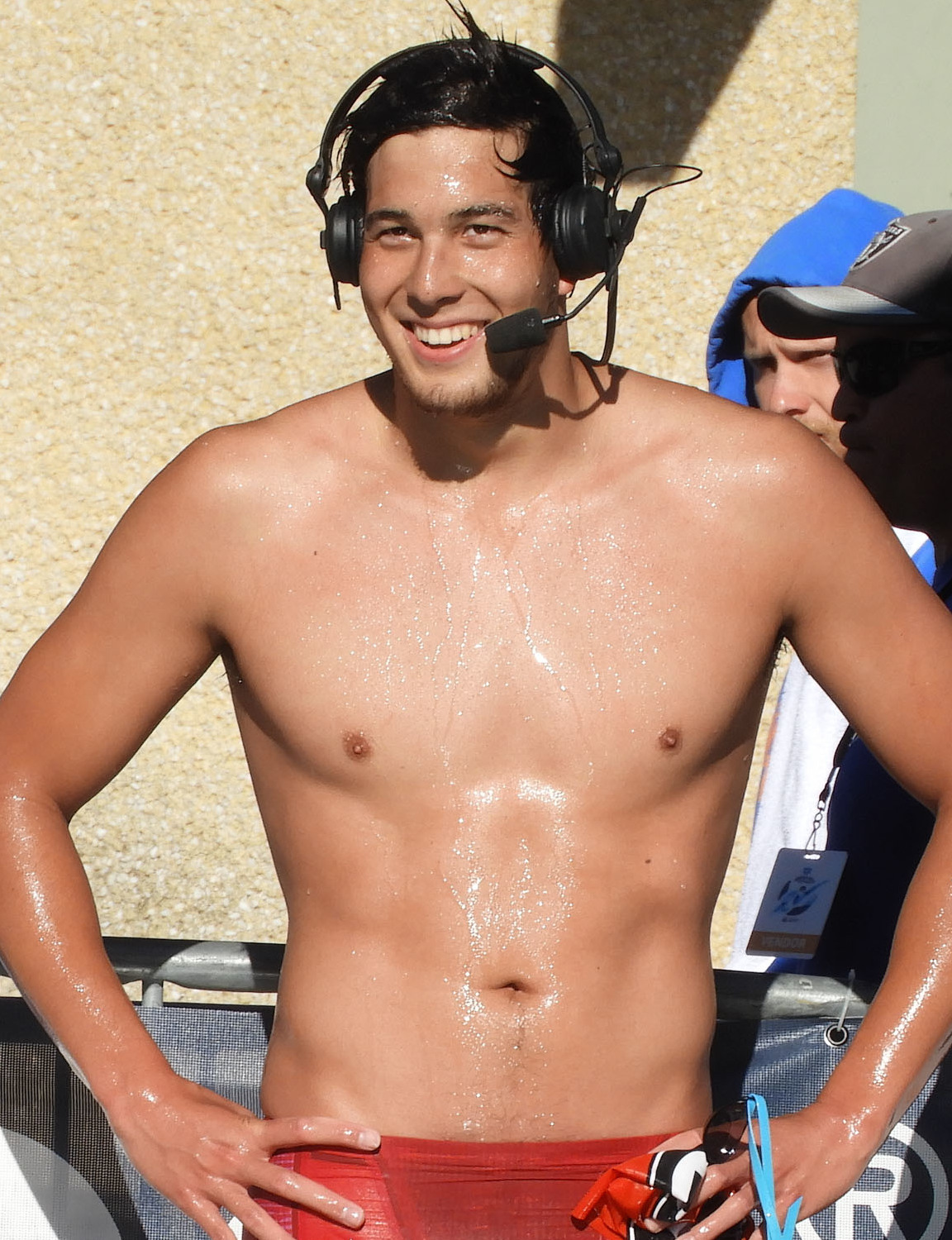 Jay Litherland after winning after winning 200 free and 400 IM